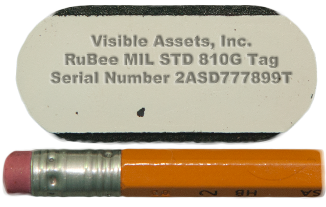 Visible Assets Inc, -- We own all rights too this image and it is free for use in public domain